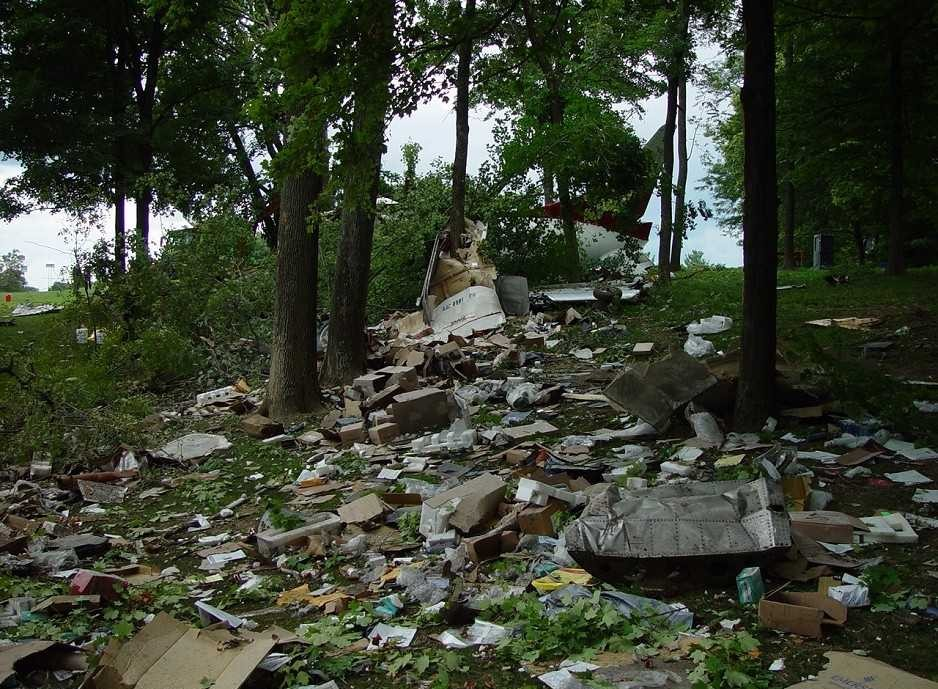 Air Tahoma N586P crash site